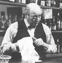 Jorge Villoldo-actor